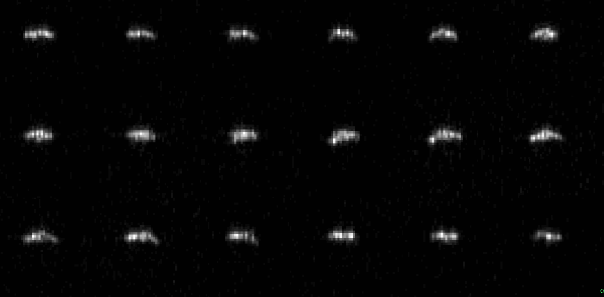 18 frame radar collage by Goldstone of asteroid 2010 AL30.